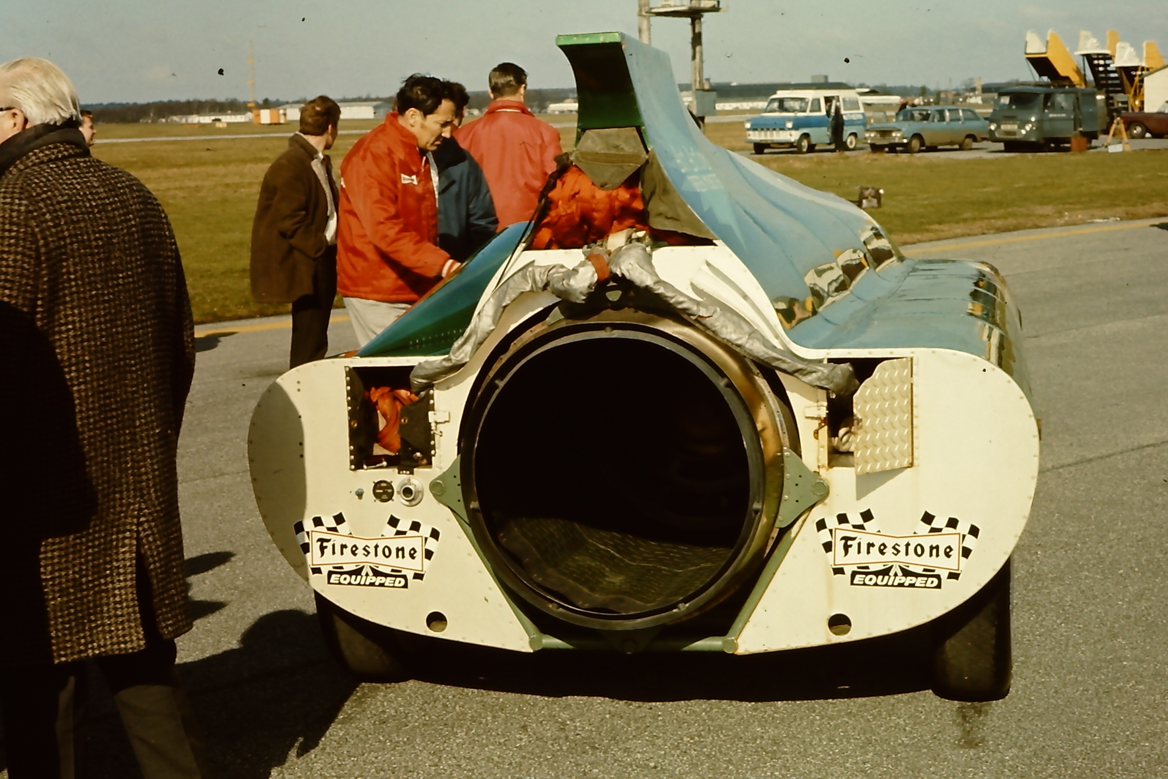 The working end of the green monster